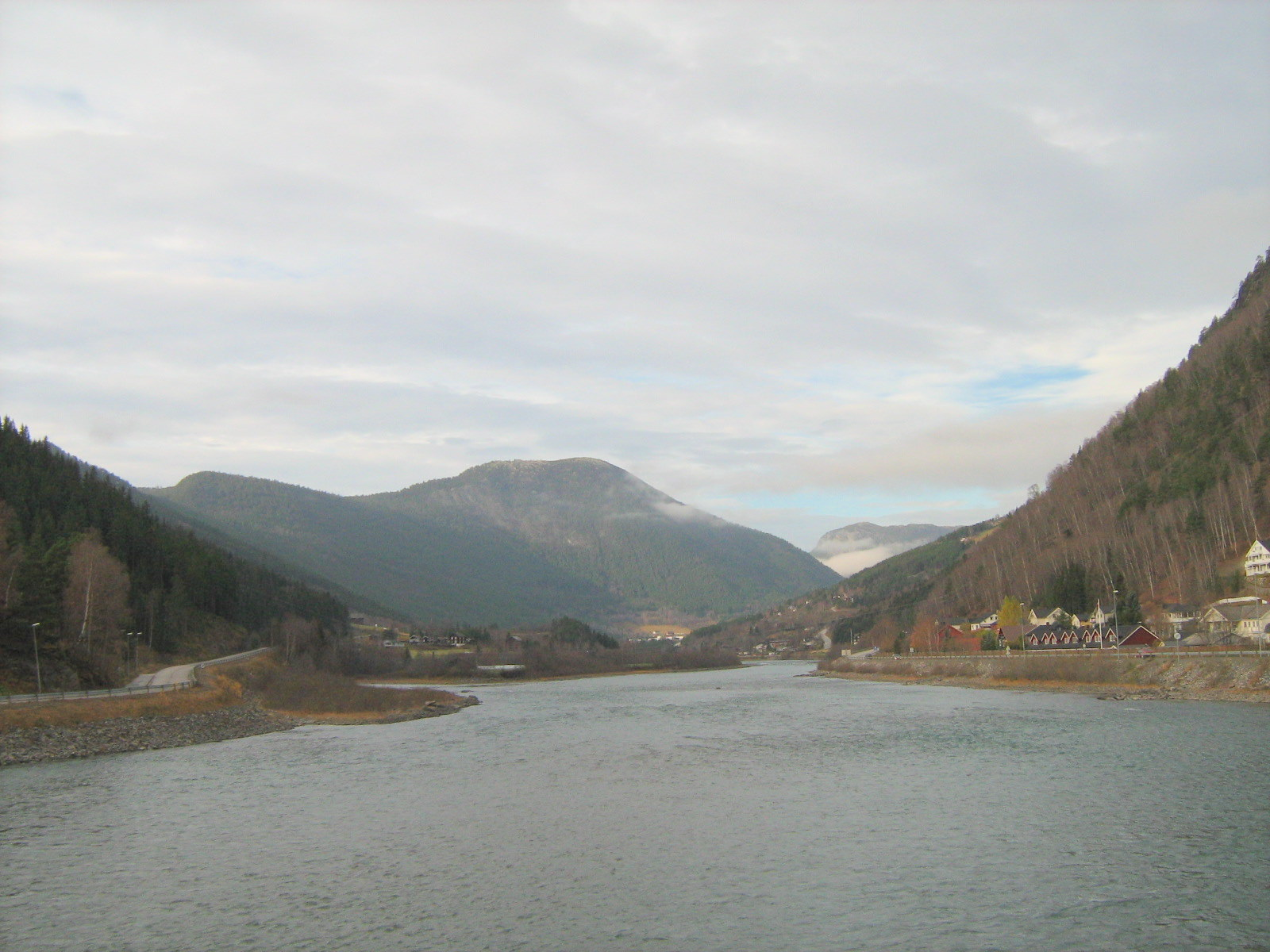 Otta River Norway, with Veggemskampen in the middle and Andershøe in the right background